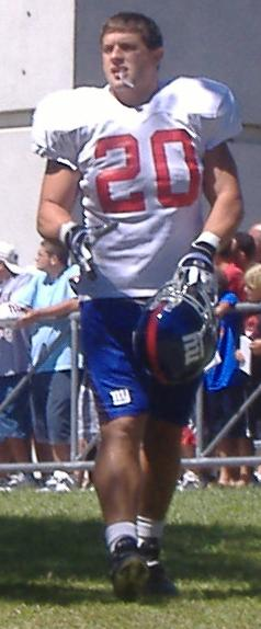 Jim Finn pic taken by me at training camp.